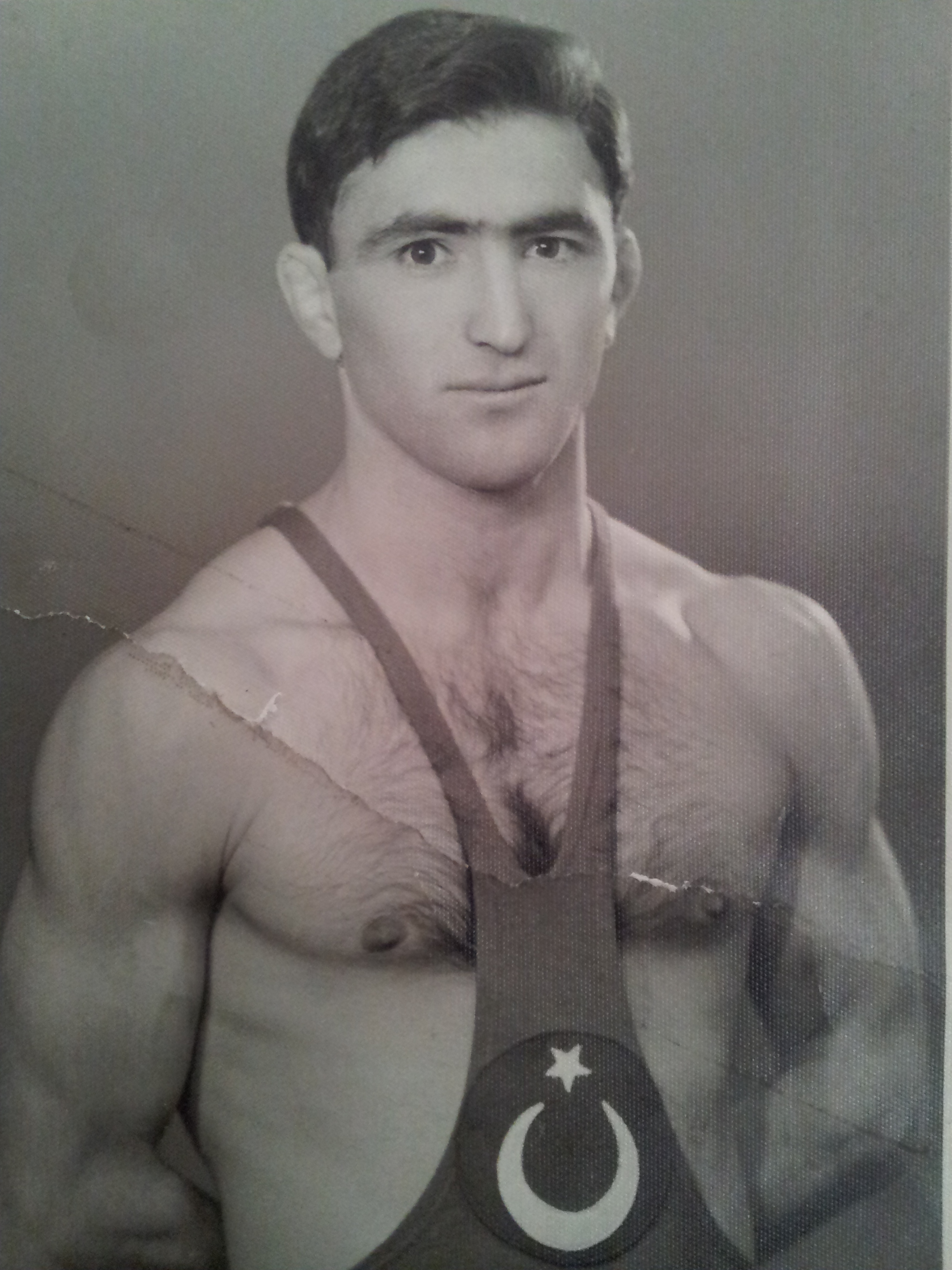 Ahmet BİLEK